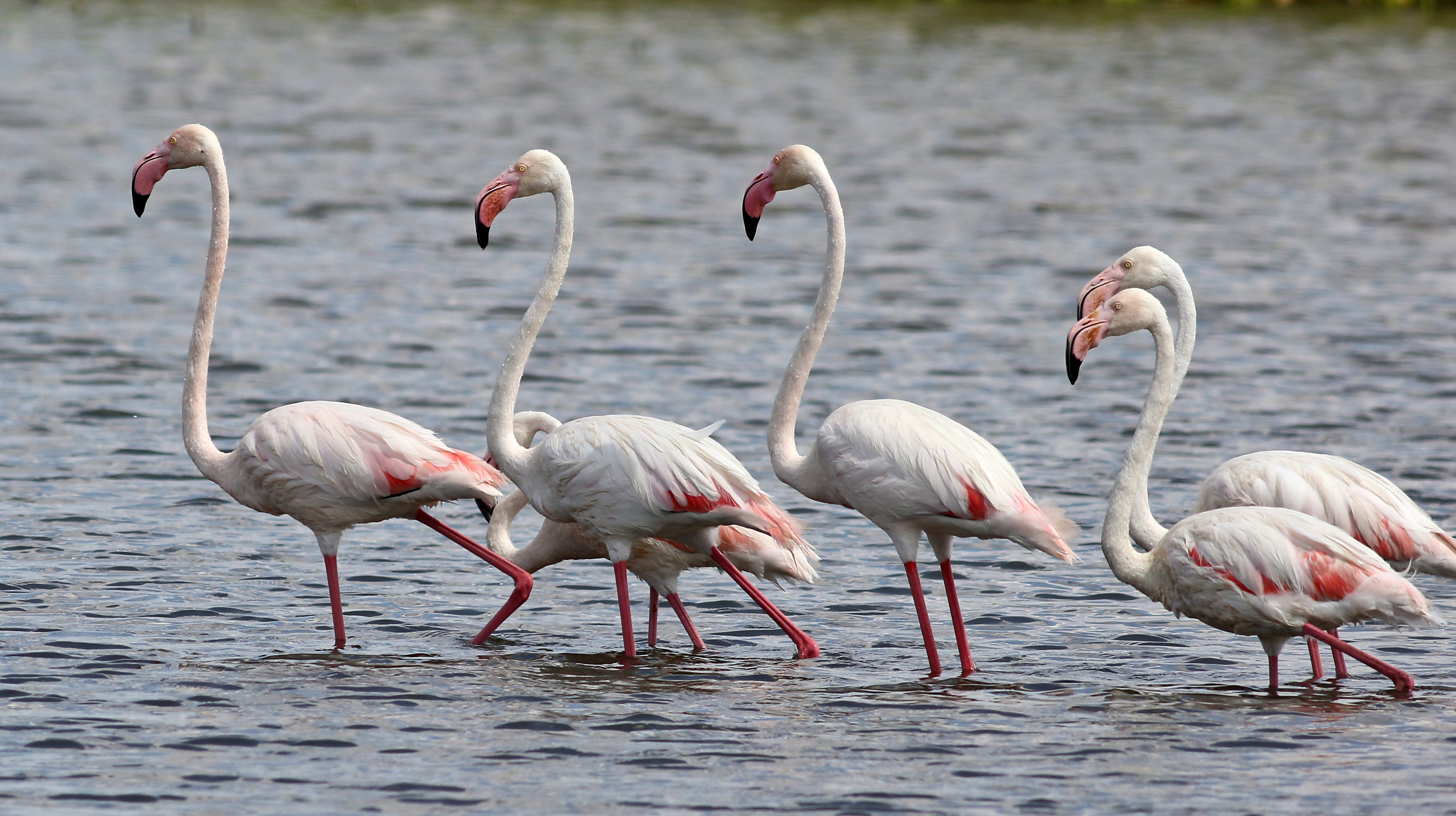 Greater Flamingo, Phoenicopterus roseus at Marievale Nature Reserve, Gauteng, South Afr